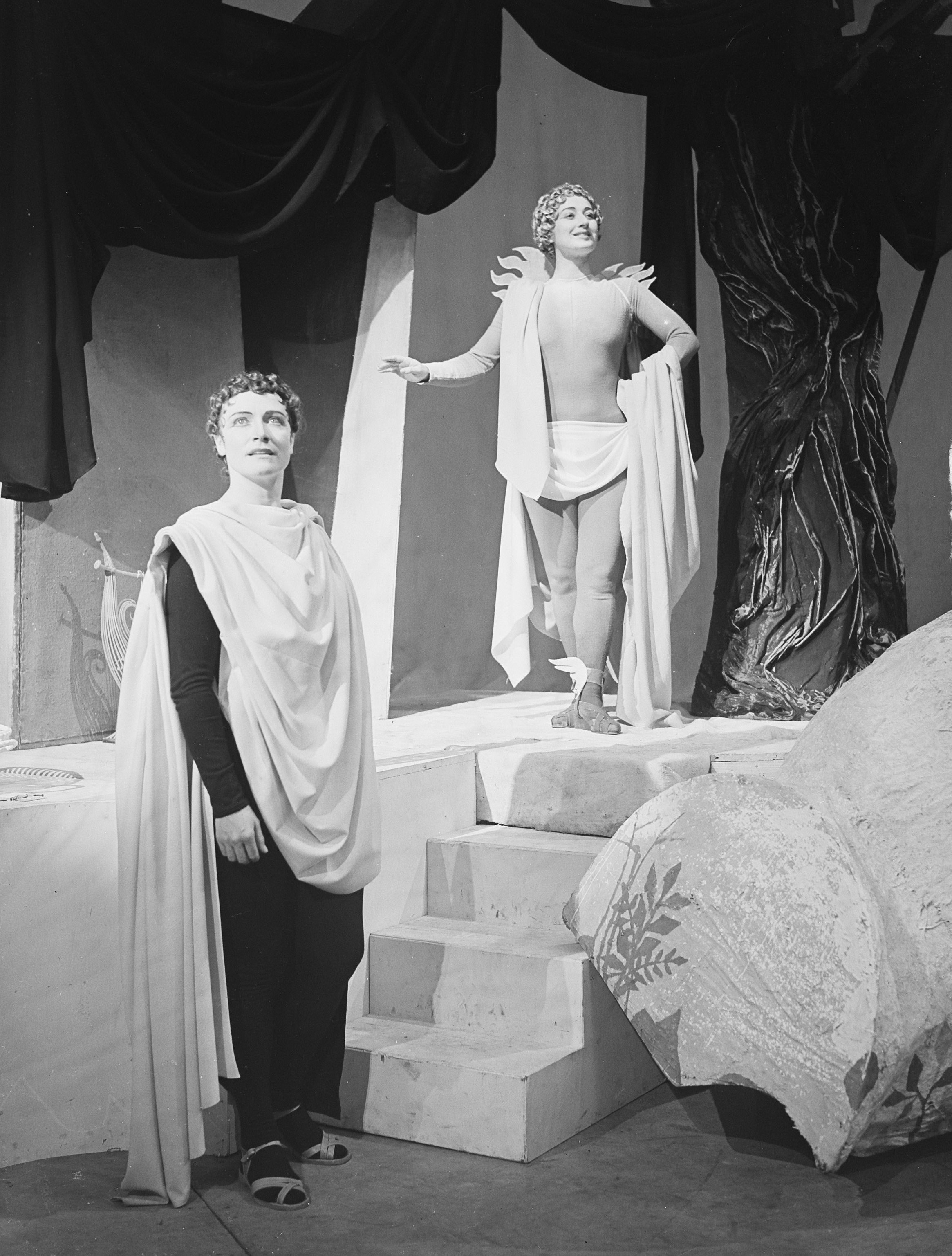 Kathleen Ferrier & Louise de Vries in Orfeo & Eurydice (the Netherlands, 23 June 1949